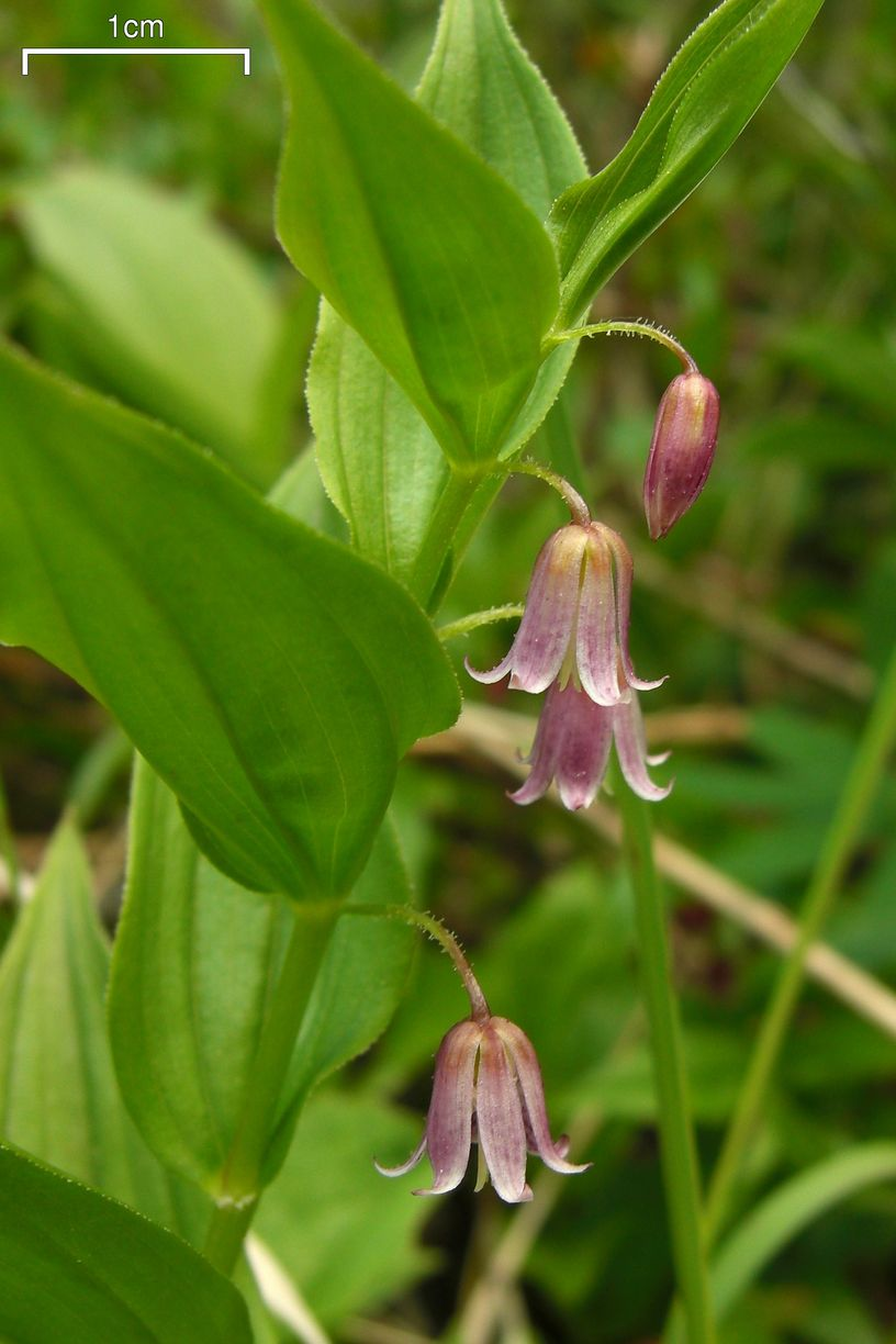 Streptopus lanceolatus in Trophy Meadows, Wells Gray Park, BC, Canada